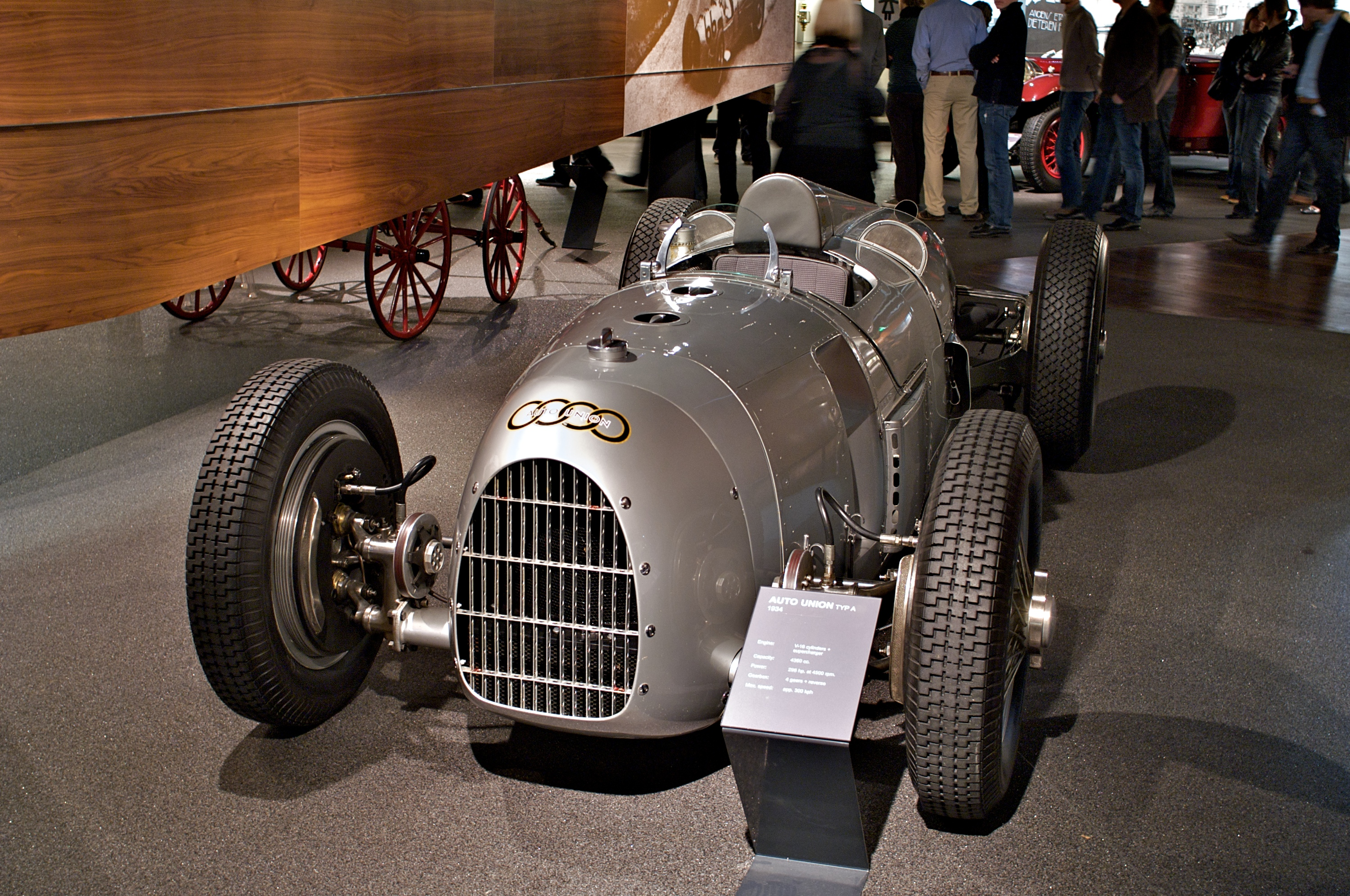 D'Ieteren Gallery - Auto Union Type A